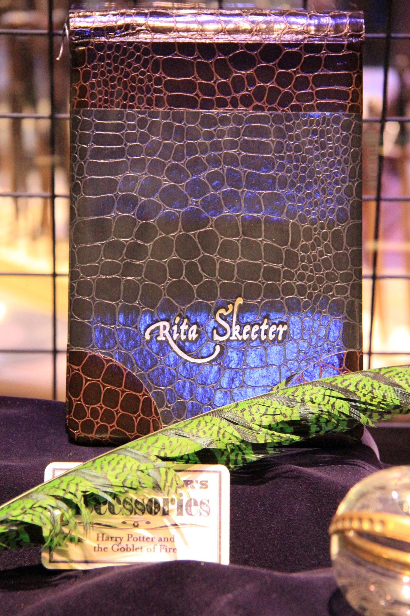 Warner Bros. Studio Tour London: The Making of Harry Potter.